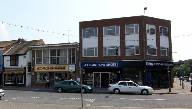 BBC Radio Humberside - Grimsby This BBC office is situated on Victoria Street South. Note the Lyric Cafe building at the left of the photo which looks to be a true survivor of Old Grimsby.